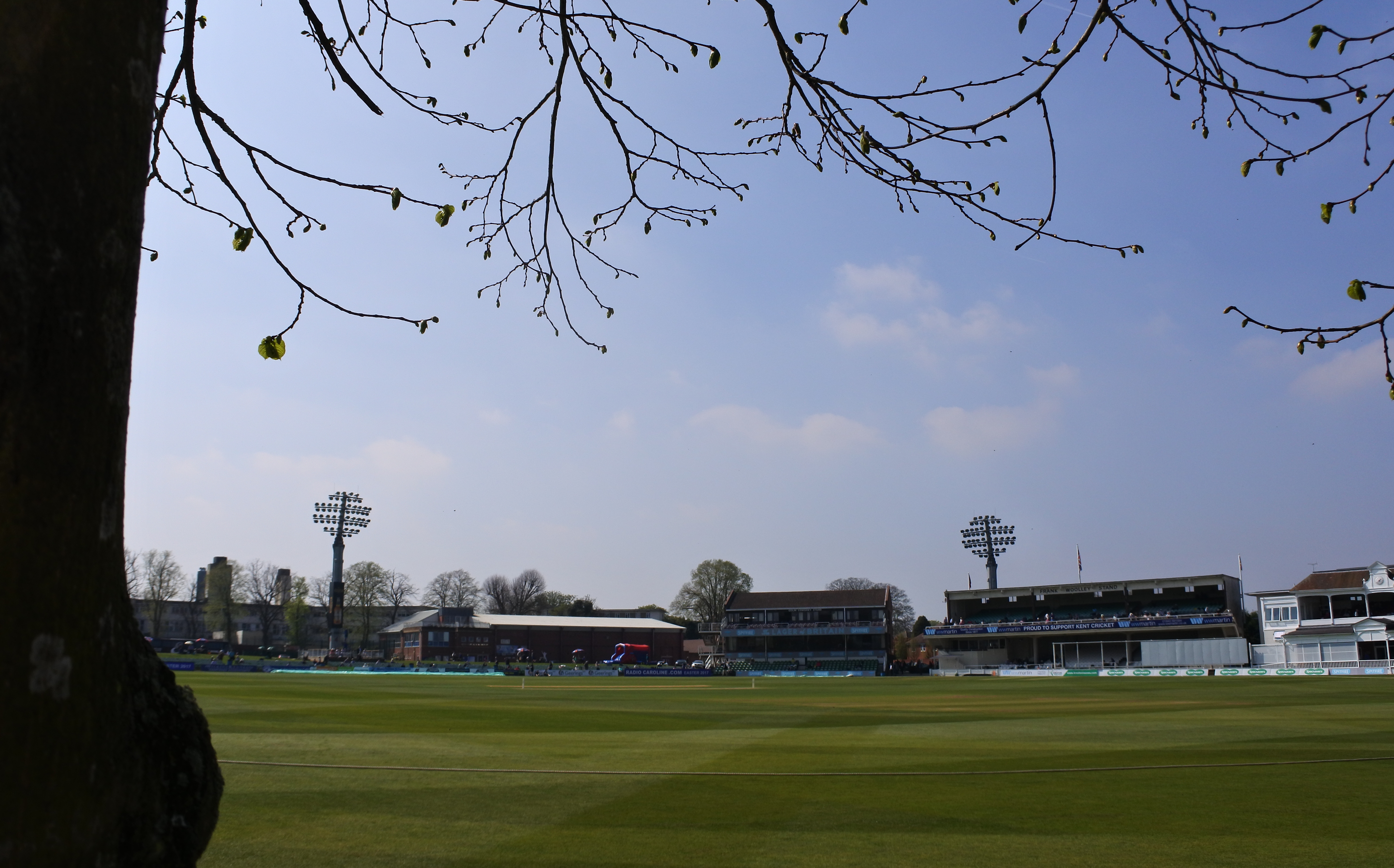 Replacement St Lawrence Lime tree at the St Lawrence Ground in Canterbury in 2017